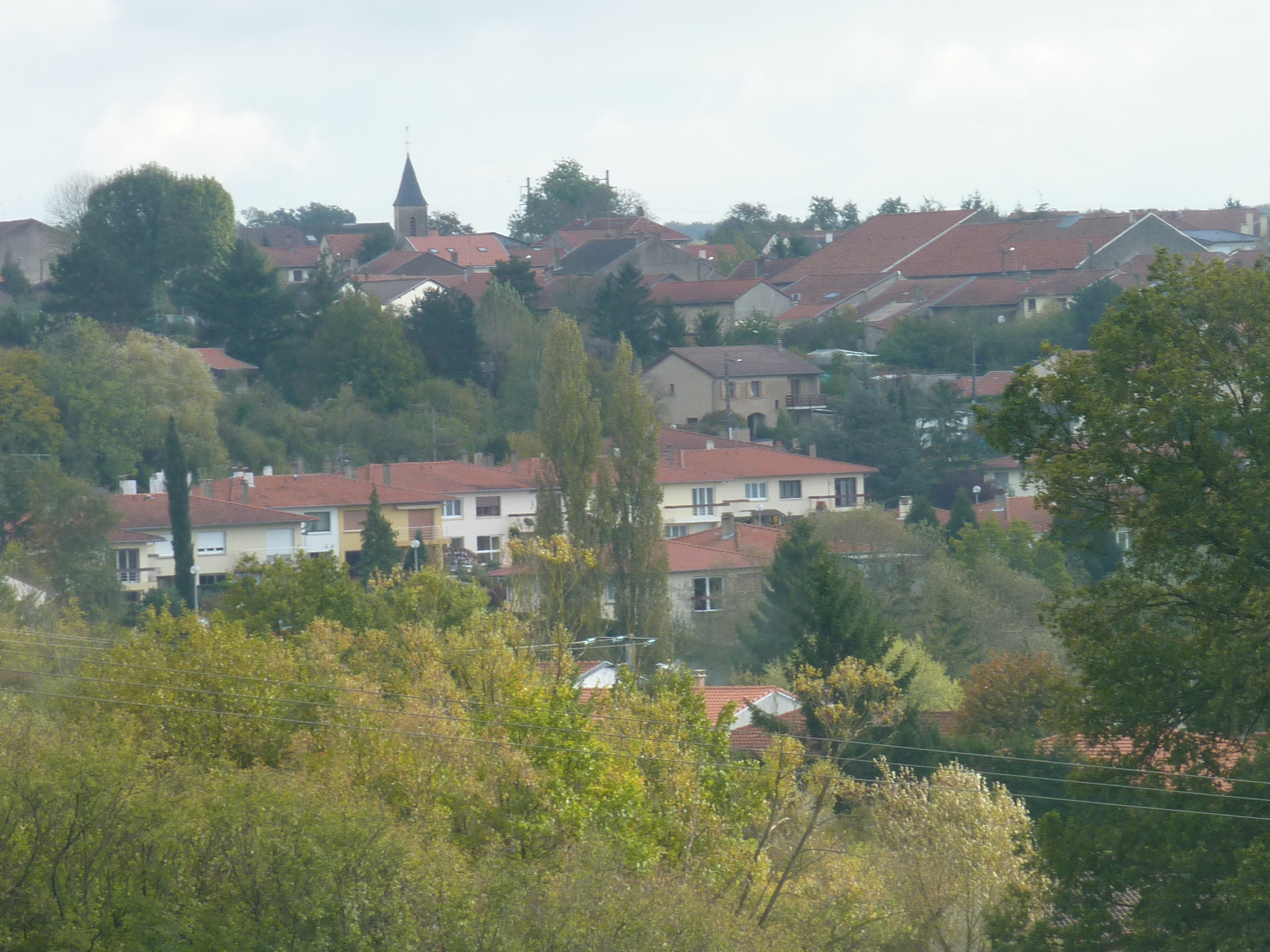 Panorama of Pouilly (Moselle), France, from the west.